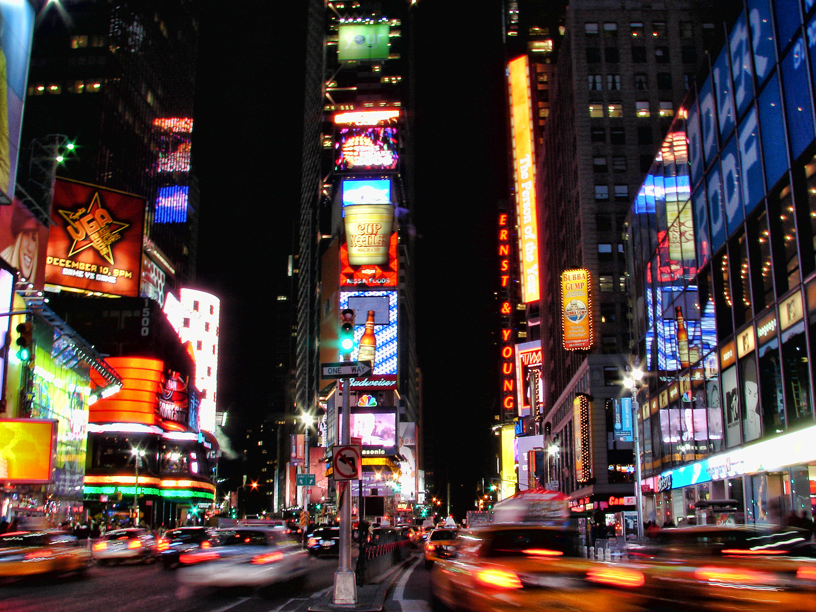 Times Square, New York City - USA